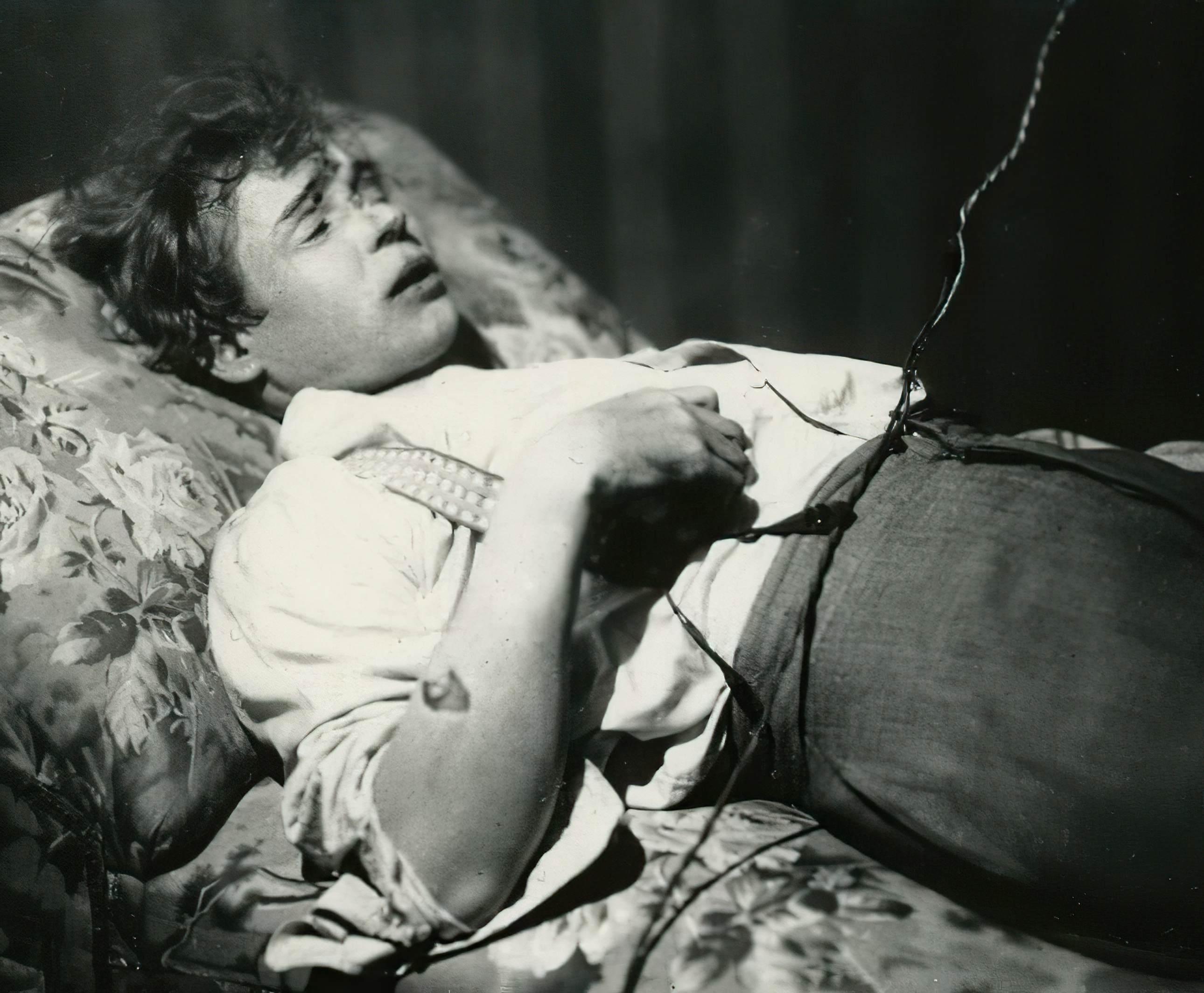 Sergei Yesenin's corpse, after he committed suicide (1925).